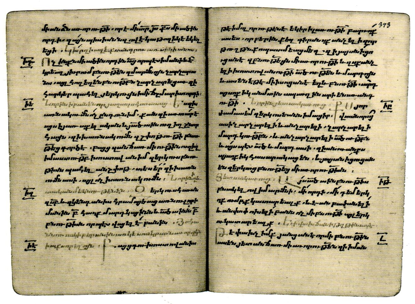 Letter of Patriarch Photius to Zacharias the Catholicos of Great Armenia